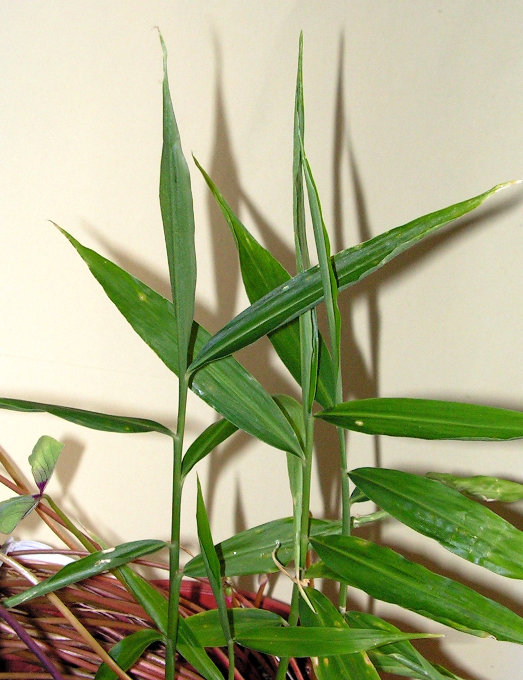 Zingiber officinale as a house plant.